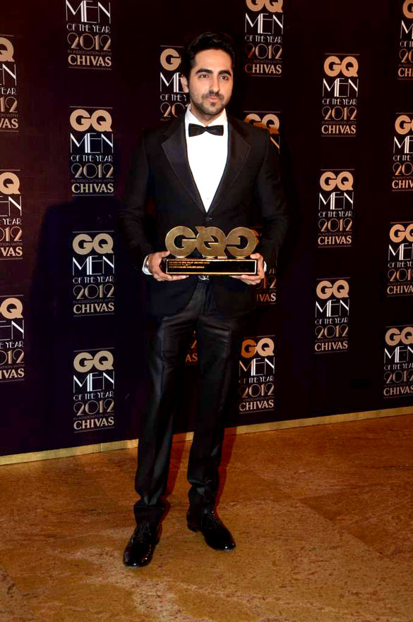 Ayushamann Khurrana at GQ Men Of The Year 2012